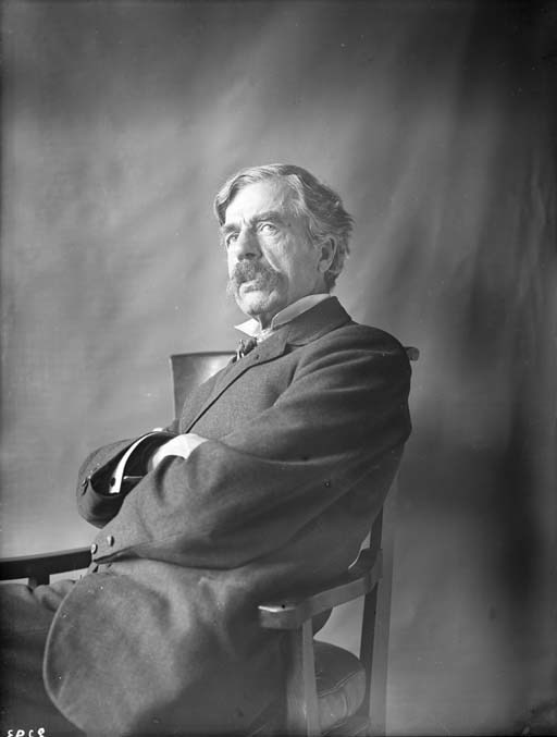 Auckland War Memorial Museum Native nameTāmaki Paenga HiraLocationAuckland, New ZealandCoordinates36° 51′ 37.08″ S, 174° 46′ 40.21″ E EstablishedOctober 25, 1852Web page control : Q758657 VIAF: 138202601 ISNI: 0000 0001 2221 0306 ULAN: 500281217 LCCN: no99028491 NLA: 35670621 WorldCat